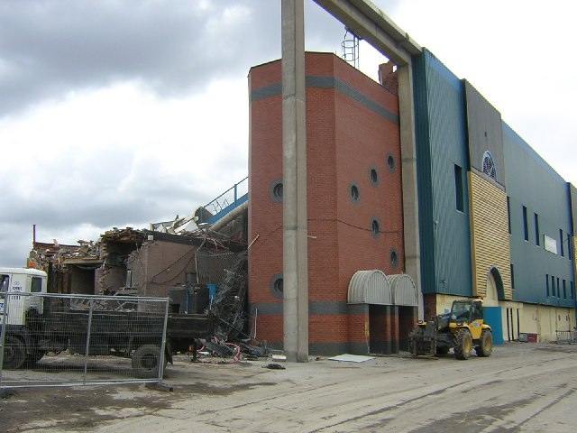 Maine Road Football Ground Former home of Manchester City FC being demolished